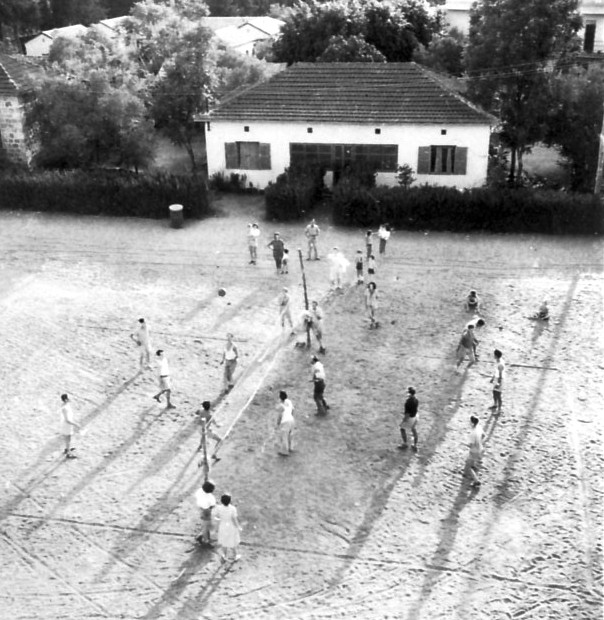 Gan-Shmuel - volleyball in the large yard in 1944, Sports in Israel